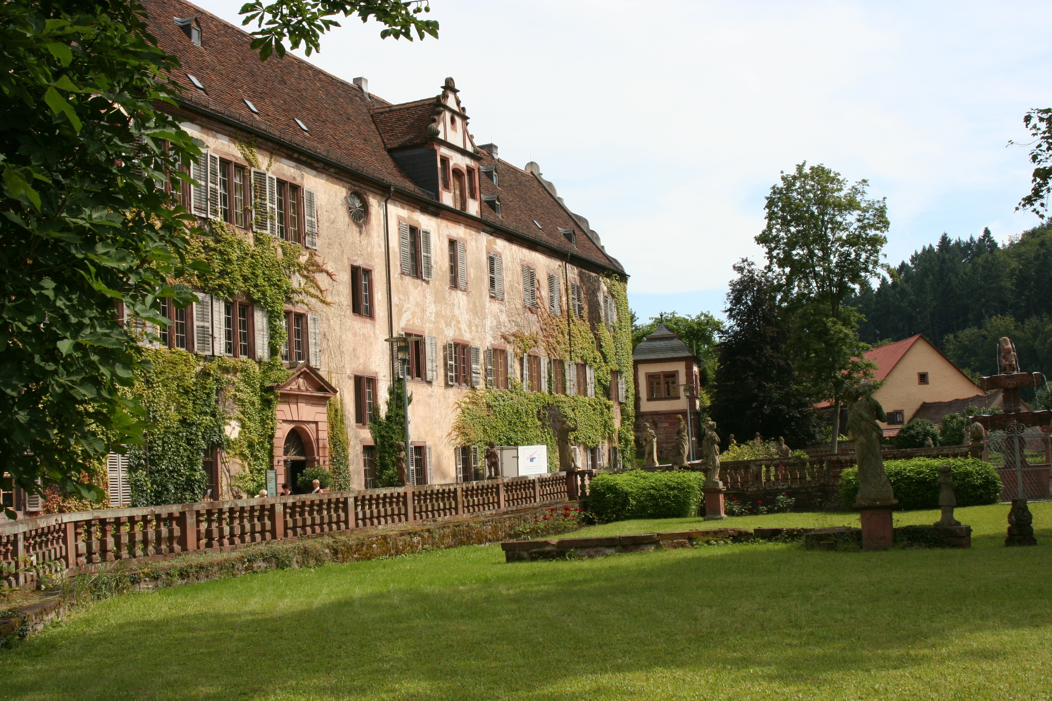 Bronnbach Abbey. Prälatur